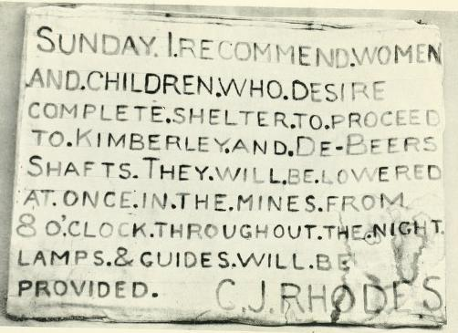 Cecil Rhodes's message to the residents of Kimberley, offering them shelter in his mines from Boer shelling after 8 p.m.